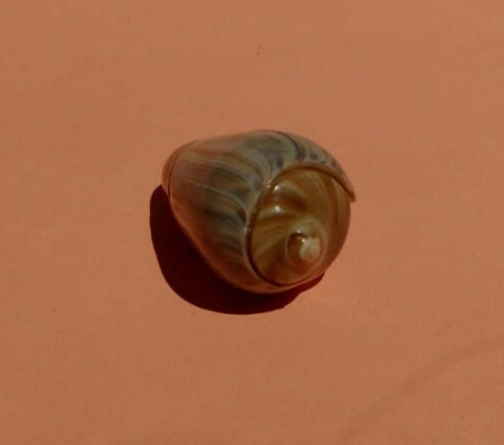 Seashell the mollusk Olivancillaria urceus (Röding, 1798) [1], collected in january, 14, 2019 at the Perequê beach, Guarujá, São Paulo, southeast Brazil.